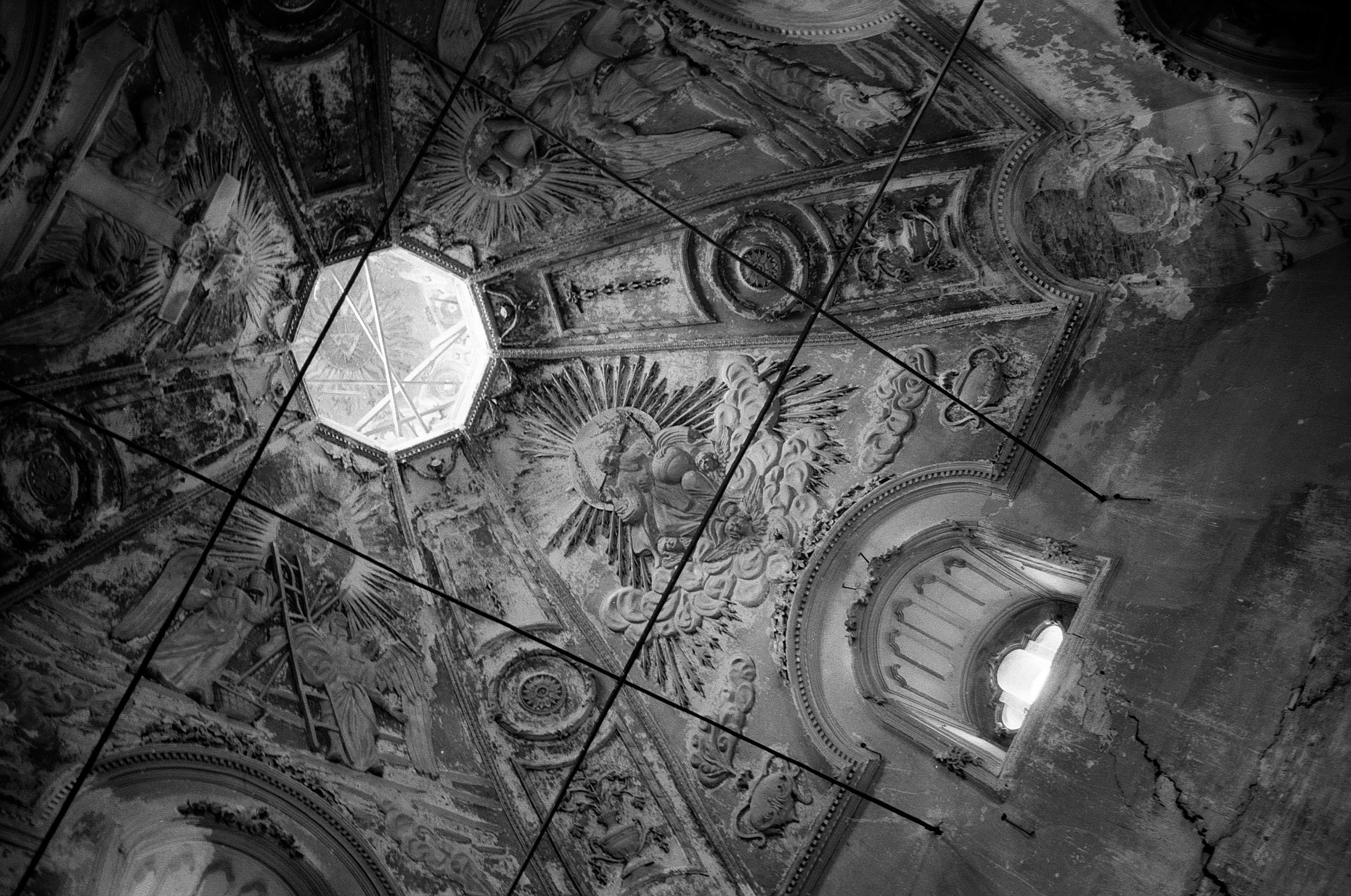 Abandoned Church, Tobol'sk, July 2010